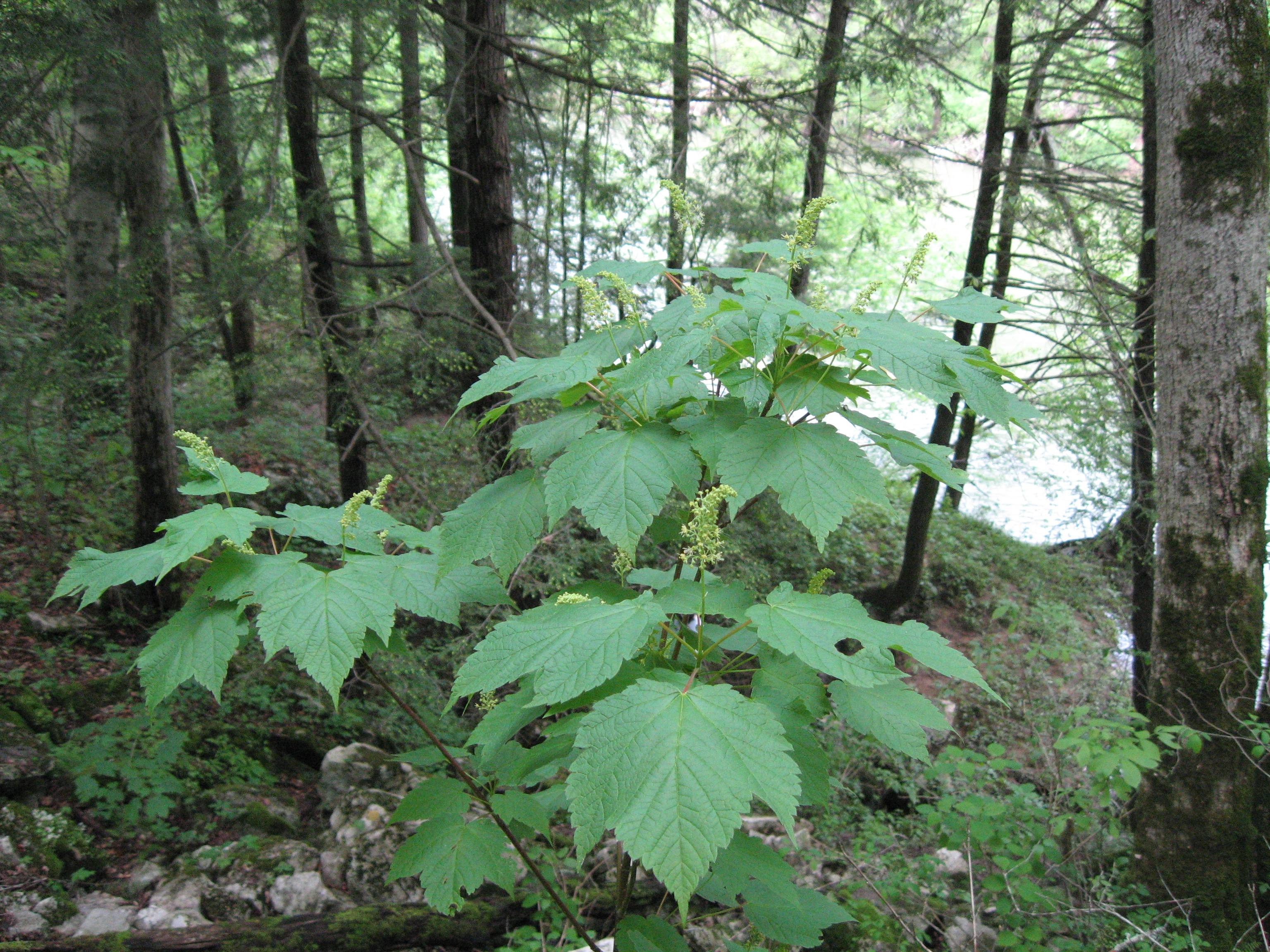 Acer spicatum near cave on Buck Creek, Pulaski County, Kentucky.